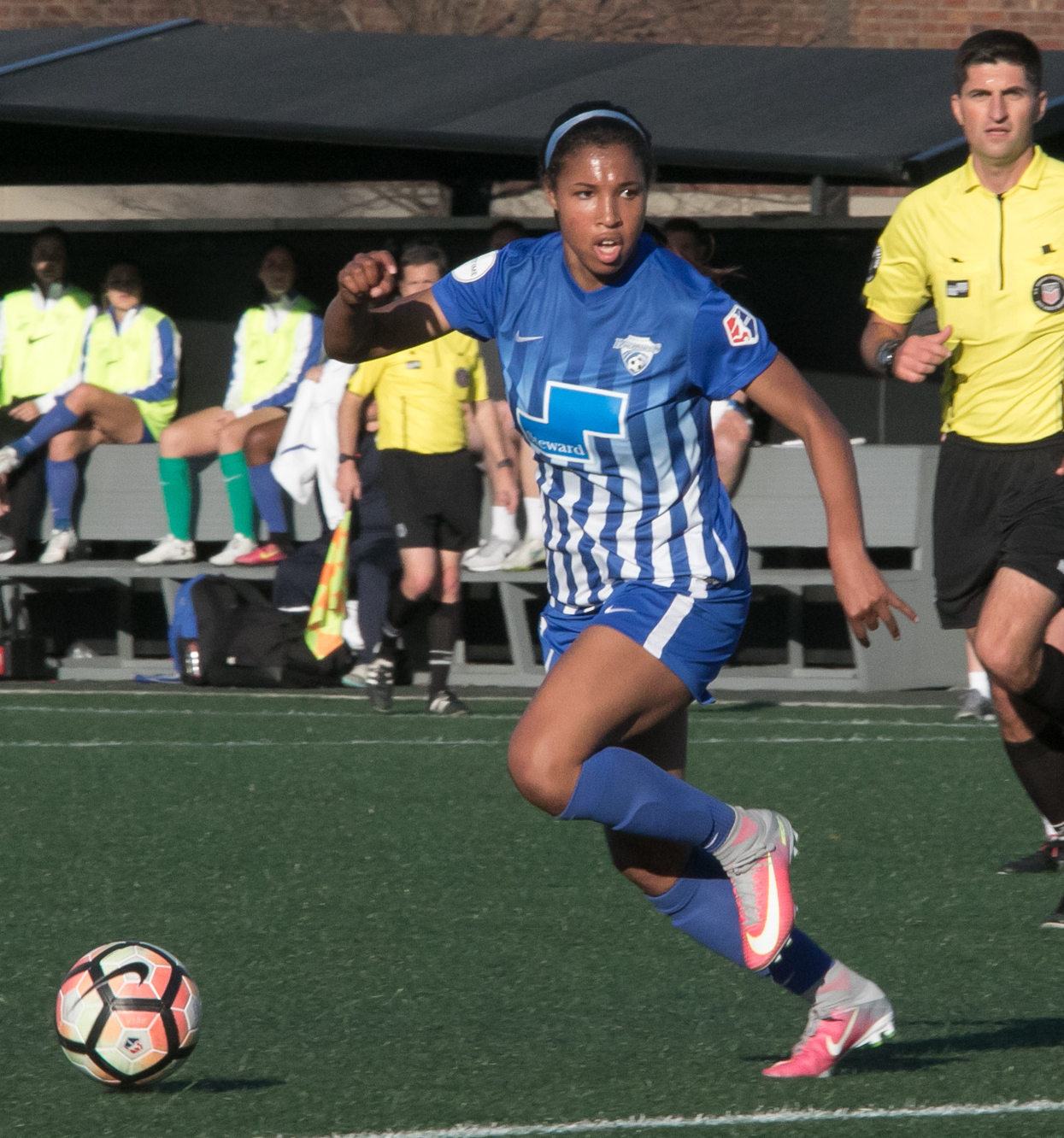 Margaret Purce playing for the Boston Breakers on April 23, 2017.